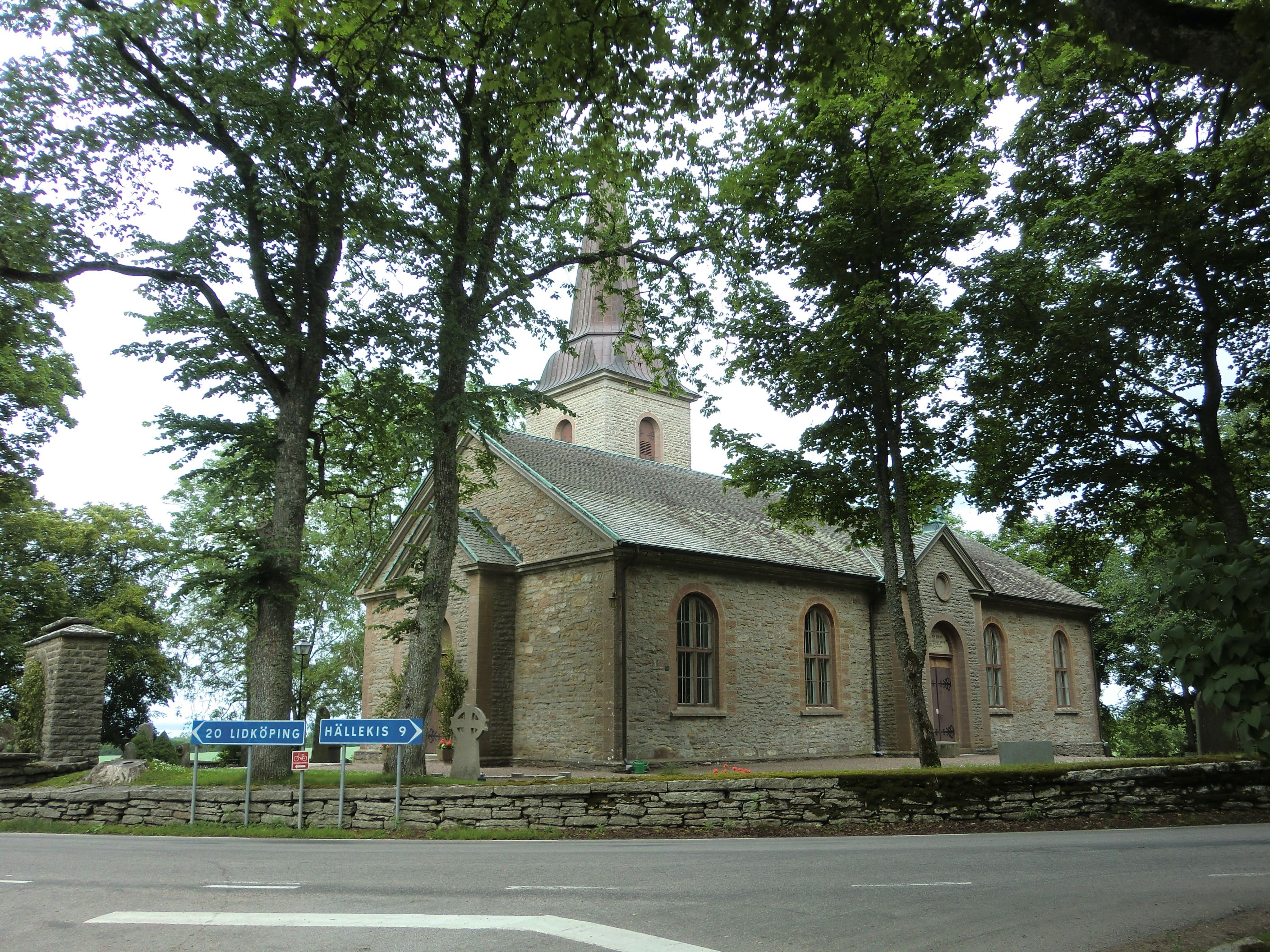 Medelplana church, Kinnekulle, Sweden